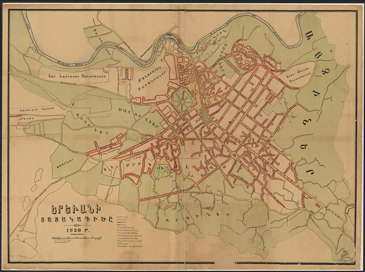 The modern city of Yerevan dates its origins to the founding of the Urartean fortress of Erebuni in 782 BC. It has been inhabited continuously ever since, and its citizens delight in pointing out that their city is older than Rome. Yerevan, however, remained a relatively small city until after the Russian conquest of the Caucasus in the early nineteenth century. It later became the capital of the short-lived First Armenian Republic, the first independent state of Armenia since the fall of the Cilician Kingdom of Armenia in AD 1375. The country was created on May 28, 1918, out of the chaos that followed the end of World War I, and lasted until late November–early December 1920. This large-scale map of Yerevan was probably published by the government of the Democratic Republic of Armenia before the Bolshevik takeover. Երեւանի յատակագիծը (Plan of Yerevan). Yerevan: probably Democratic Republic of Armenia, 1920. Geography and Map Division, Library of Congress (061.00.01)